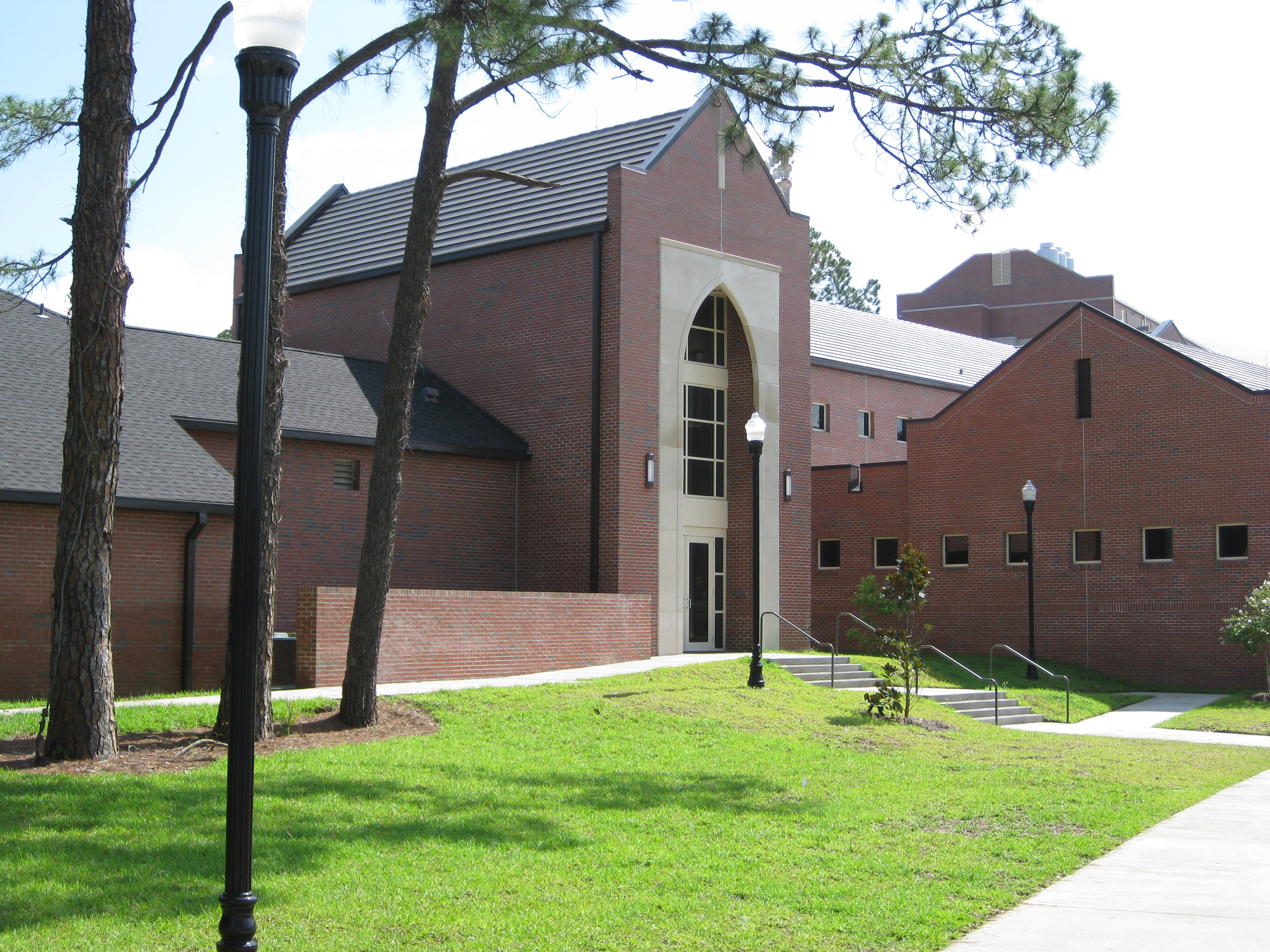 The Mcintosh Track and Field Building at Florida State University (construction completed 2008)